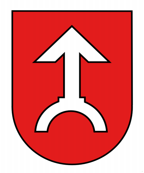 Coat of arms Ogończyk of polish noble families